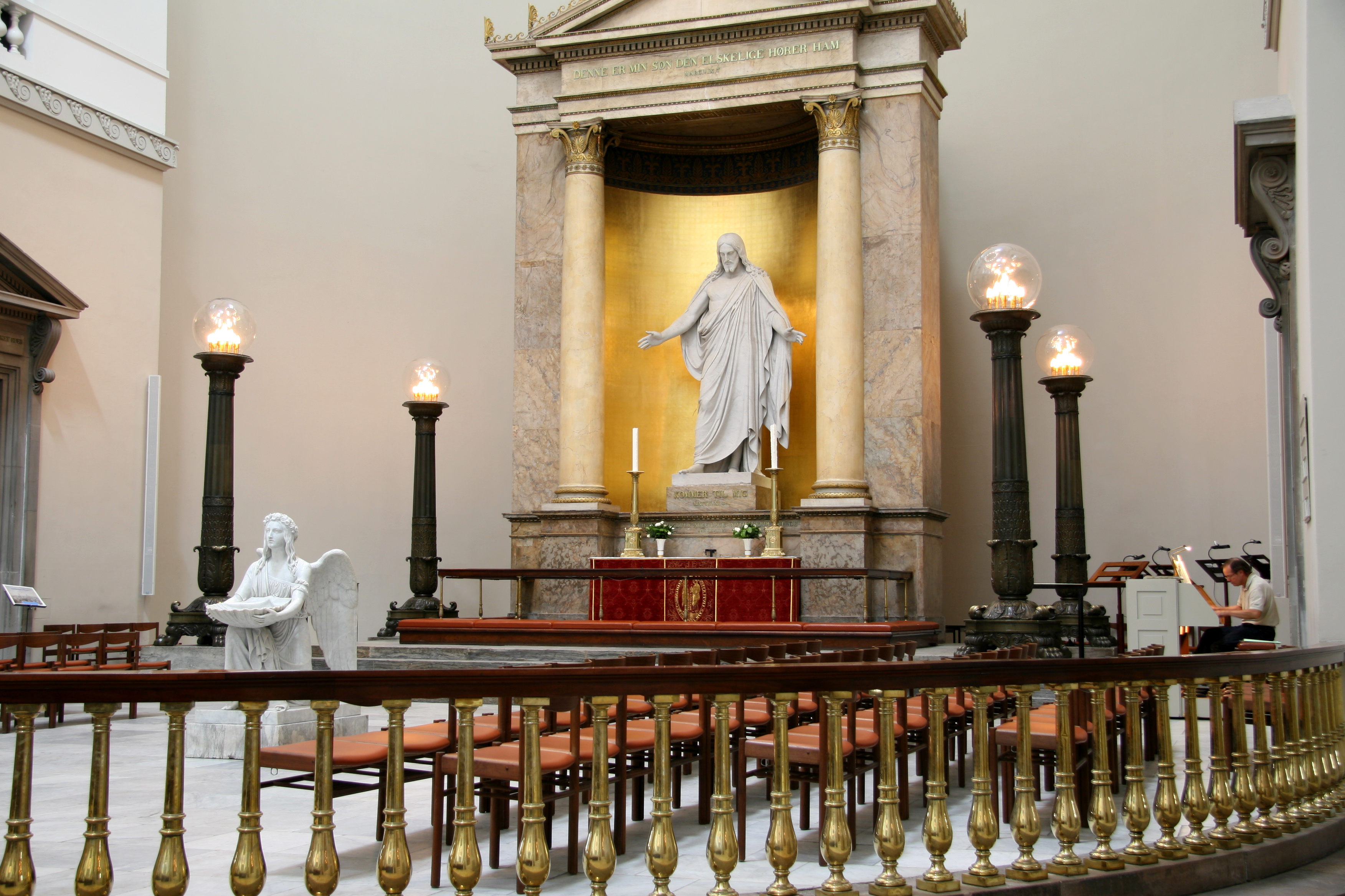 Vor Frue Kirke in Copenhagen, Denmark. The cathedral of Copenhagen. Quire.